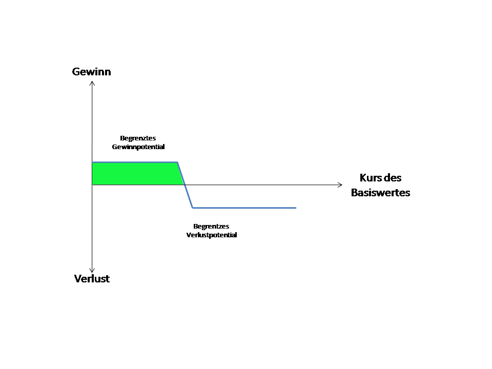 Bear Call Spread